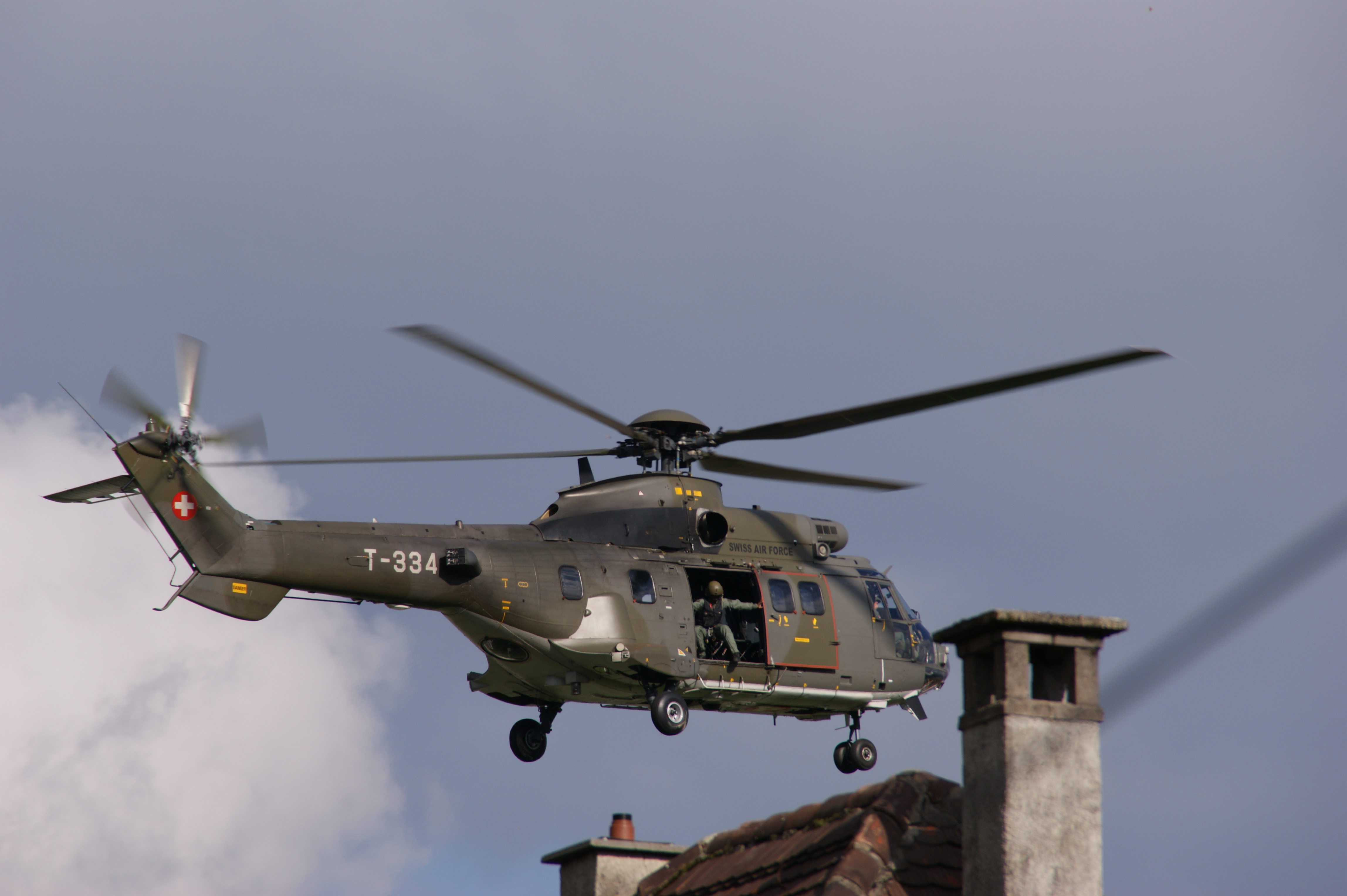 A Cougar AS532 T-334 of the Swiss Air Force during a rescue exercise over 2011 St. Gallen, Switzerland